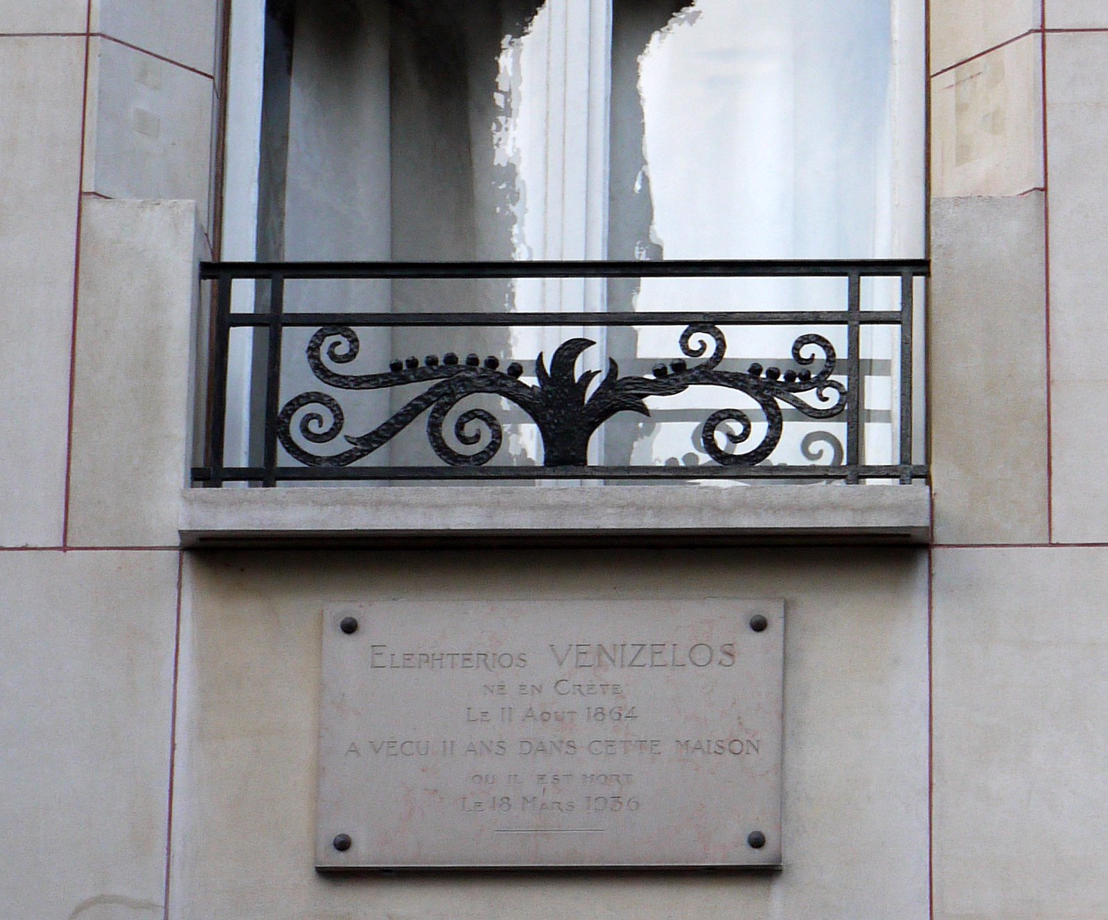 Building 22 rue Beaujon in Paris (France) where the Prime minister of Greece Eleftherios Venizelos lived his last years and died.